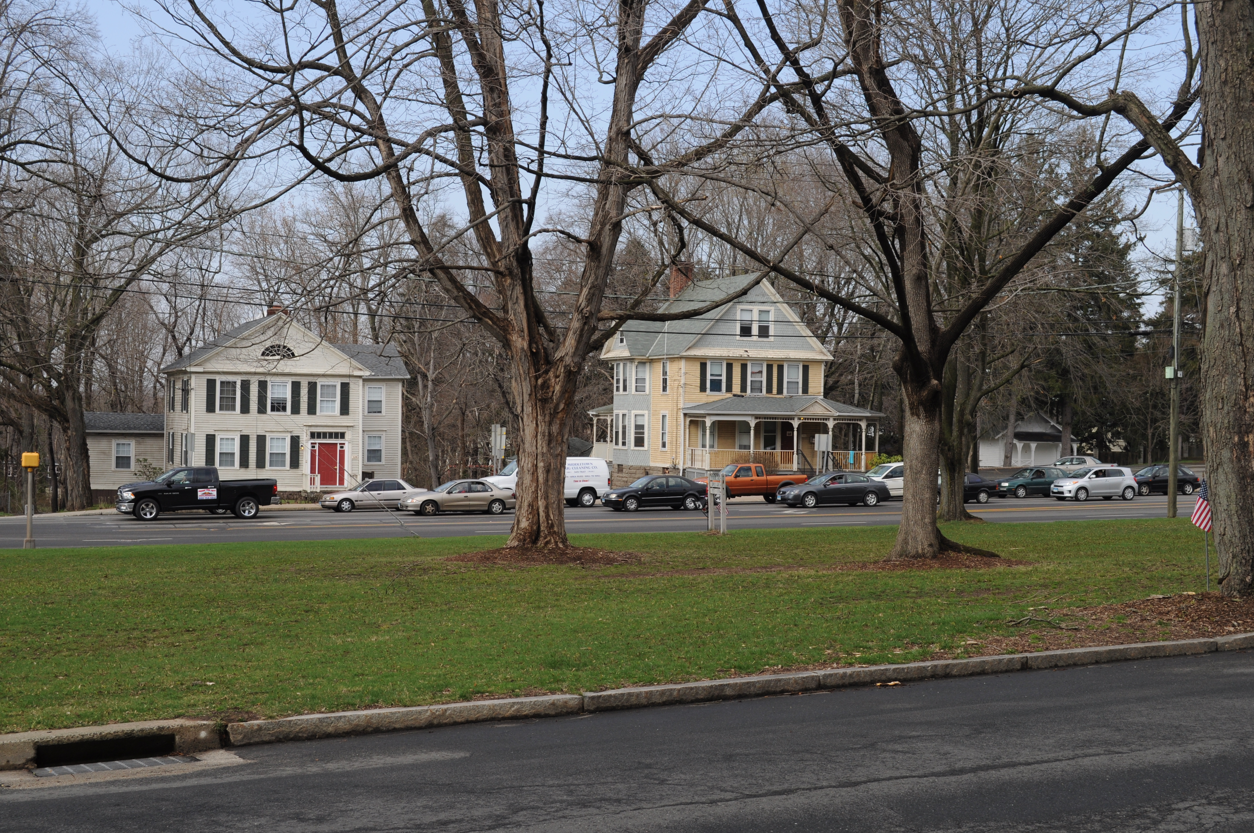 322 and 324 Washington Street in the Washington Street Historic District, Middletown, Connecticut, USA. I believe both are owned by Wesleyan University. The house on the left, 324 Washington Street, is the Henry Aston House.